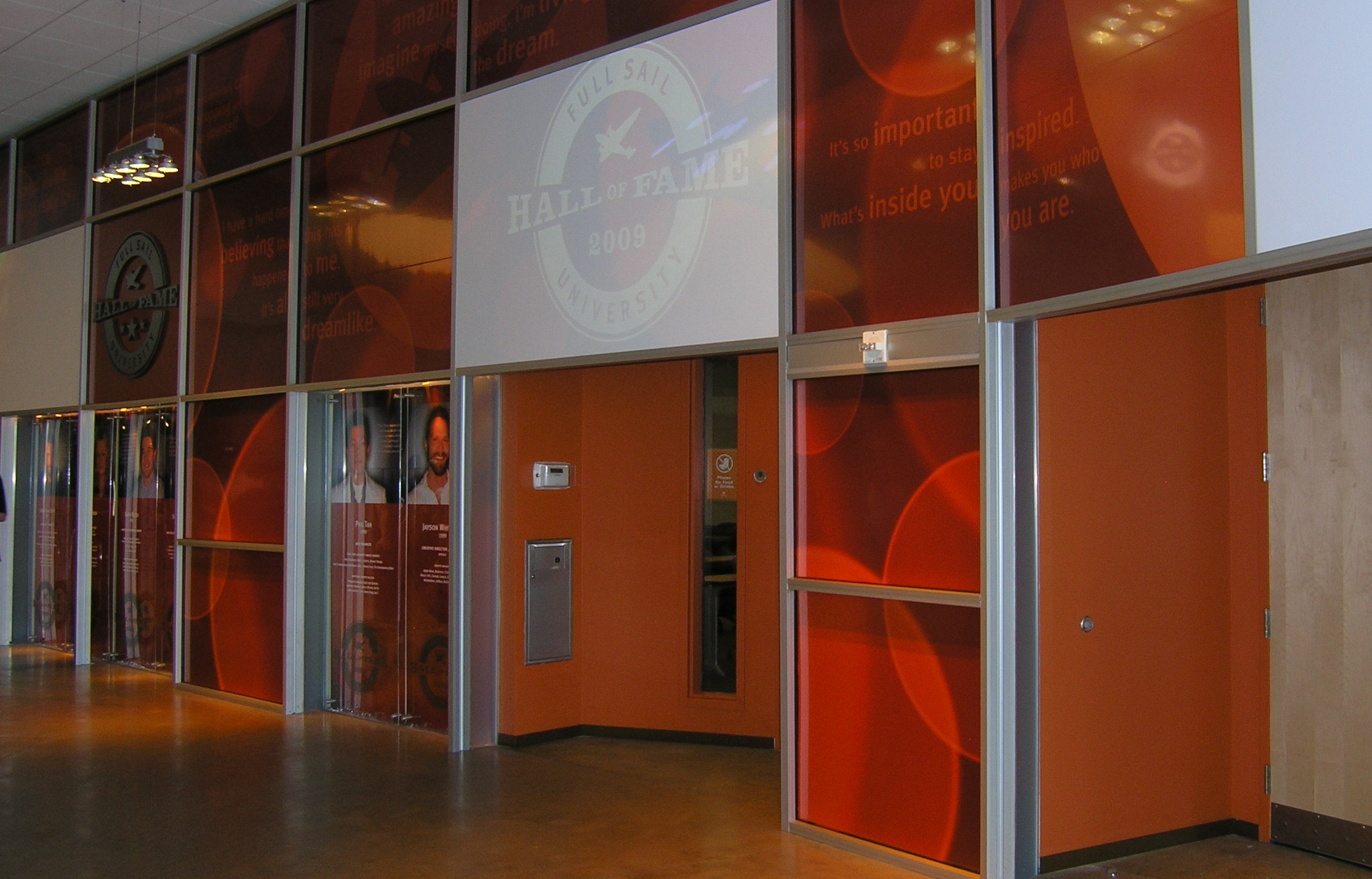 This is a photograph of the Full Sail Hall of Fame display.